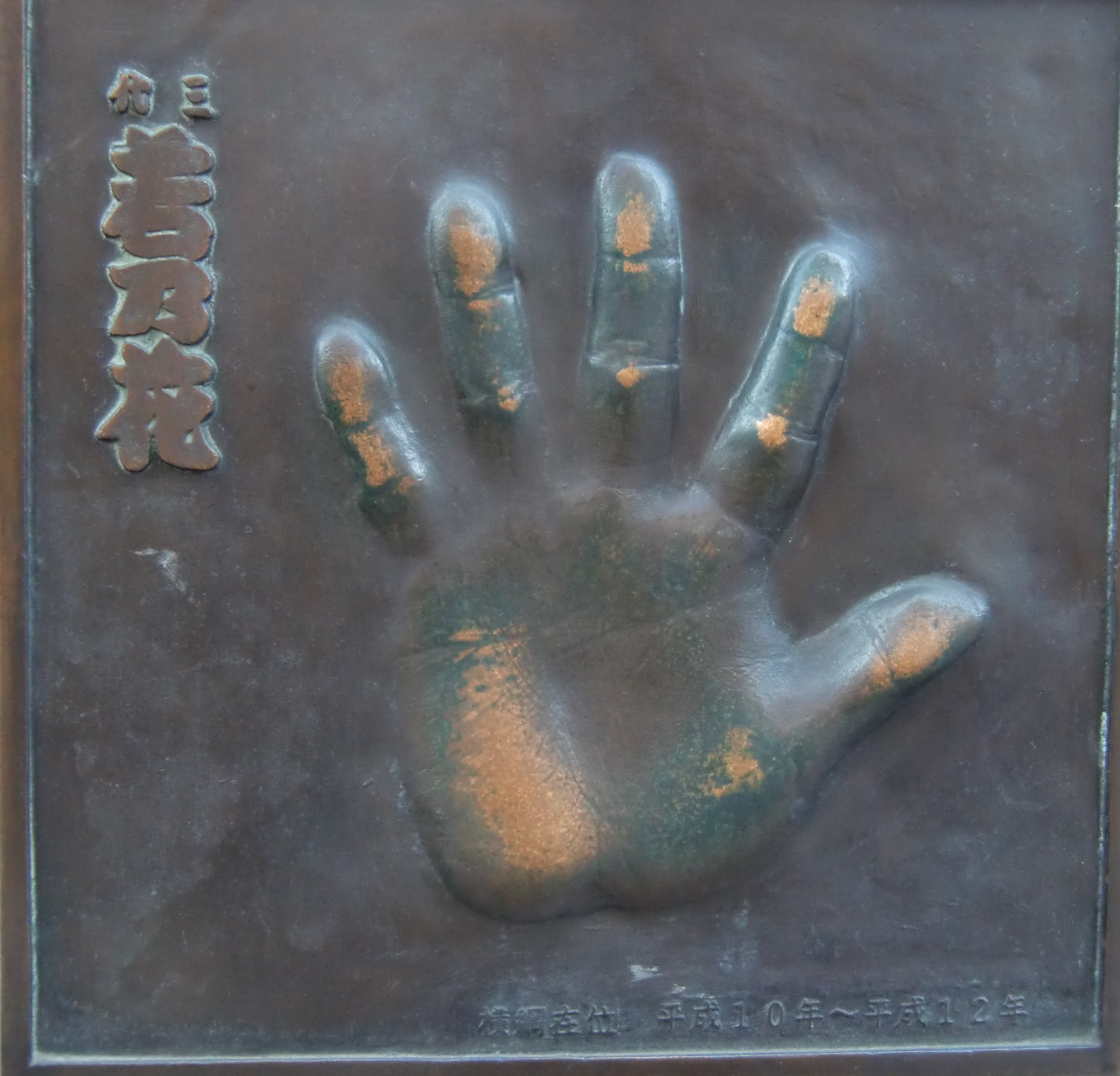 taken from public street monument in Ryogoku, Tokyo